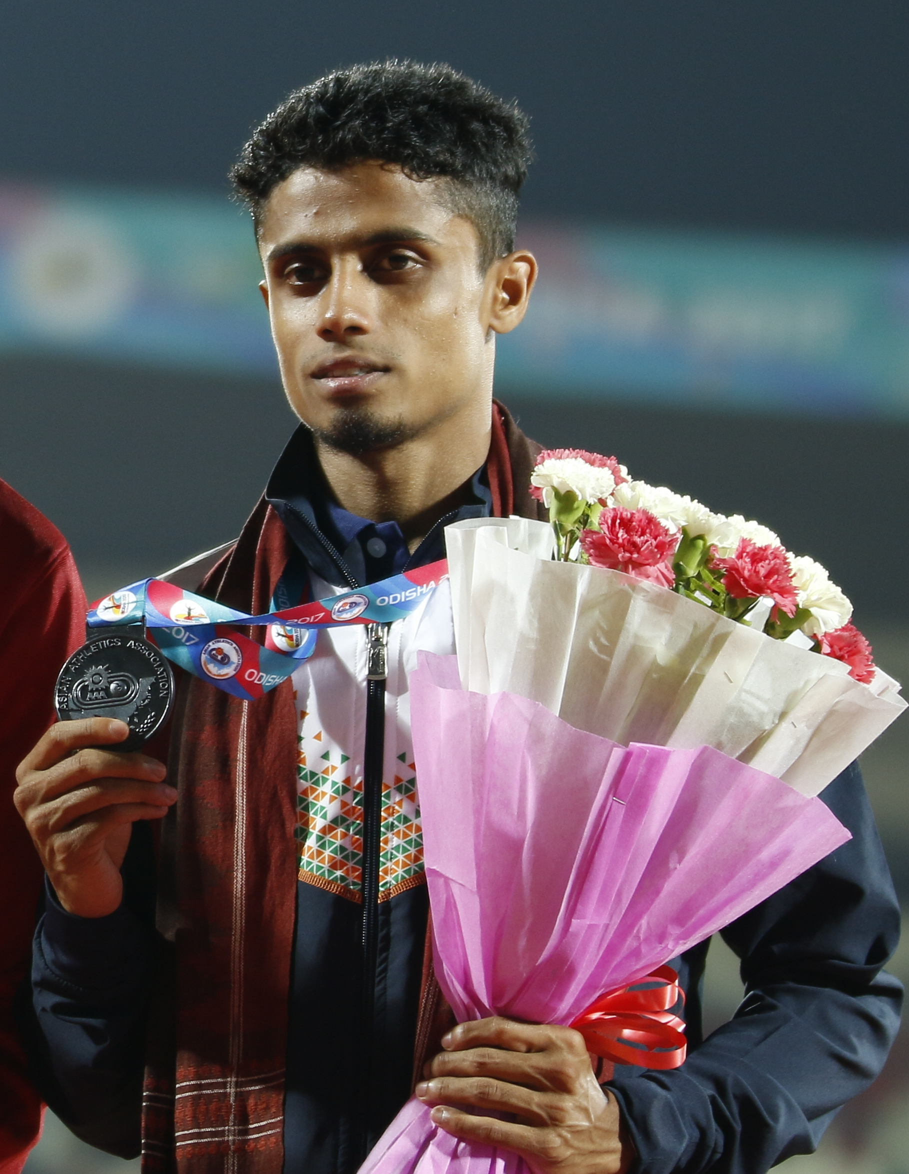 Athletes during 22nd Asian Athletics Championships in Bhubaneswar.